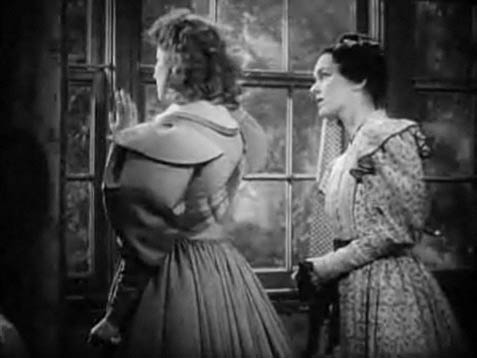 Cropped screenshot of Greer Garson and Maureen O'Sullivan from the trailer for the film Pride and Prejudice (1940)